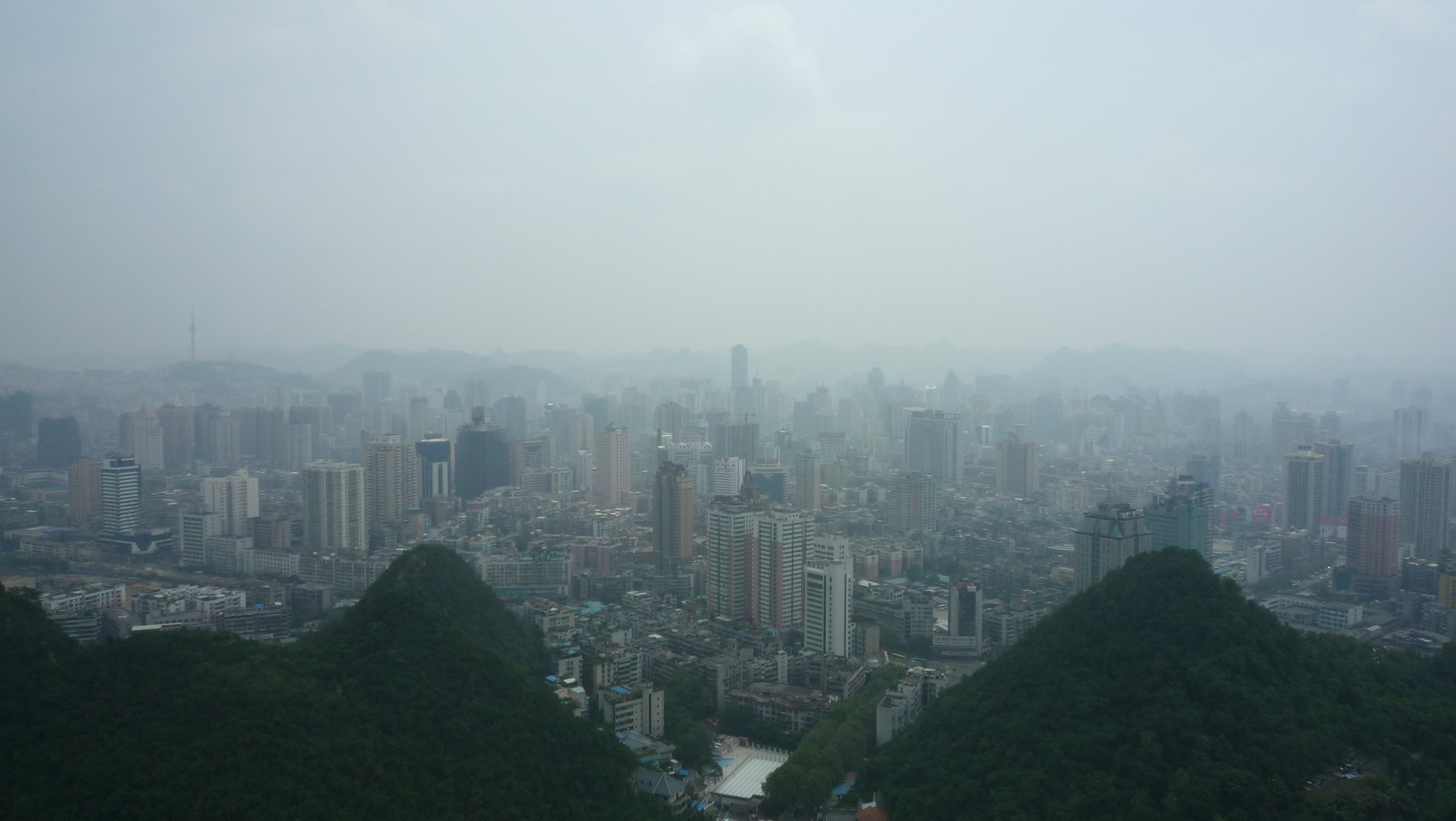 An overview of Guiyang's two main districts from Mountain Qianlin's peak